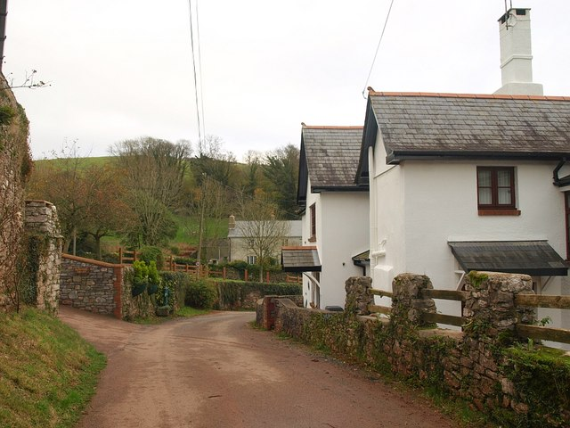 Aish The cul-de-sac from Aish Cross turns a corner by Bowhay Farm.